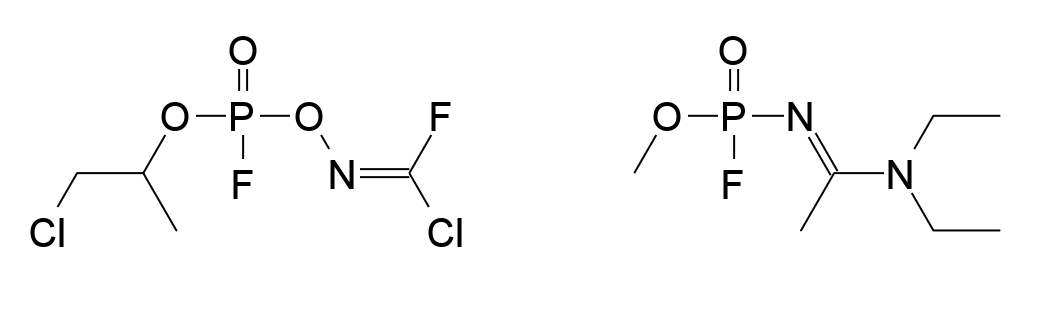 Structure of two illustrative "novichok" agents